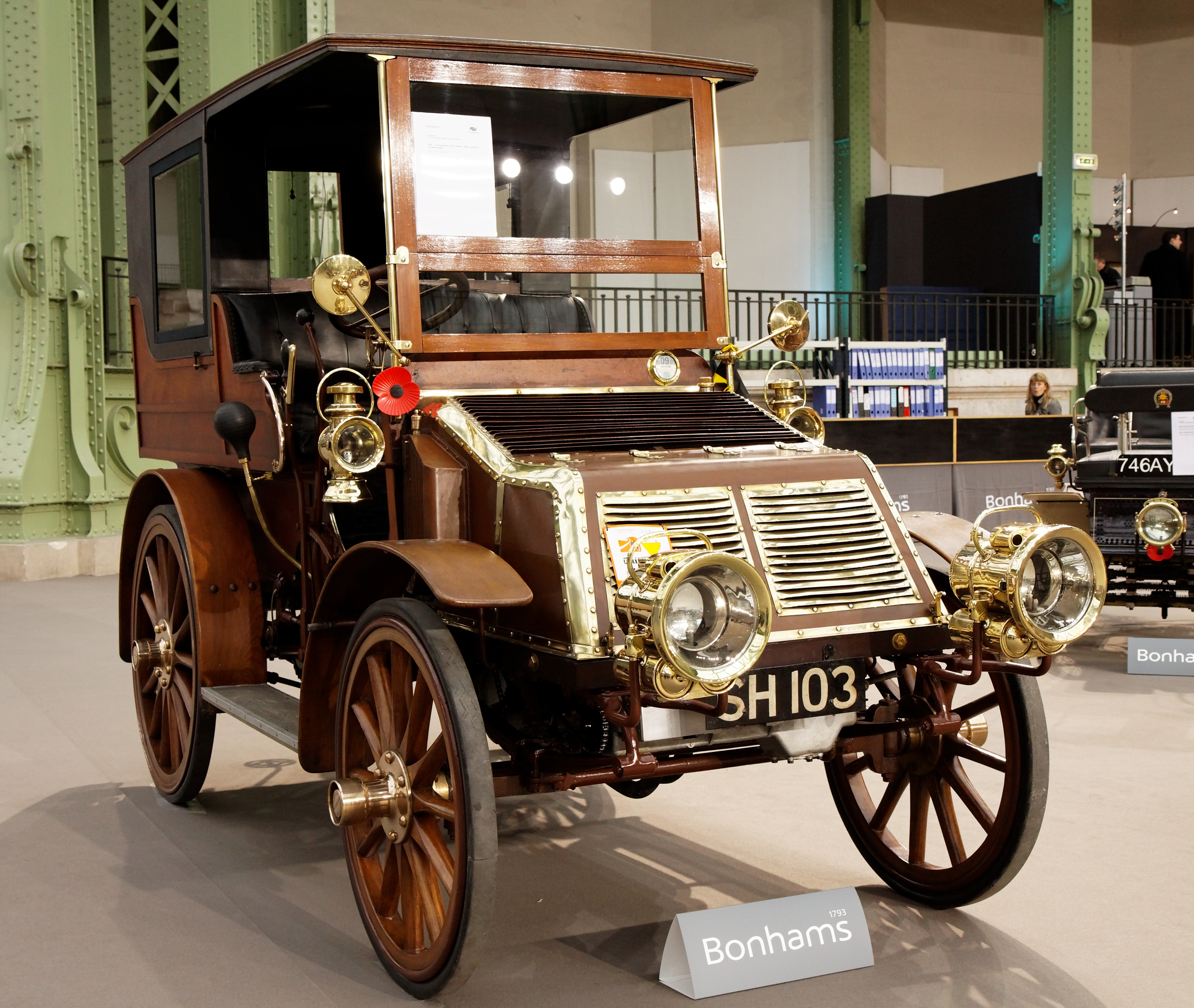 1904 Arrol-Johnston 20 CV limousine during « 110 ans de l'automobile » exhibition in the Grand Palais.